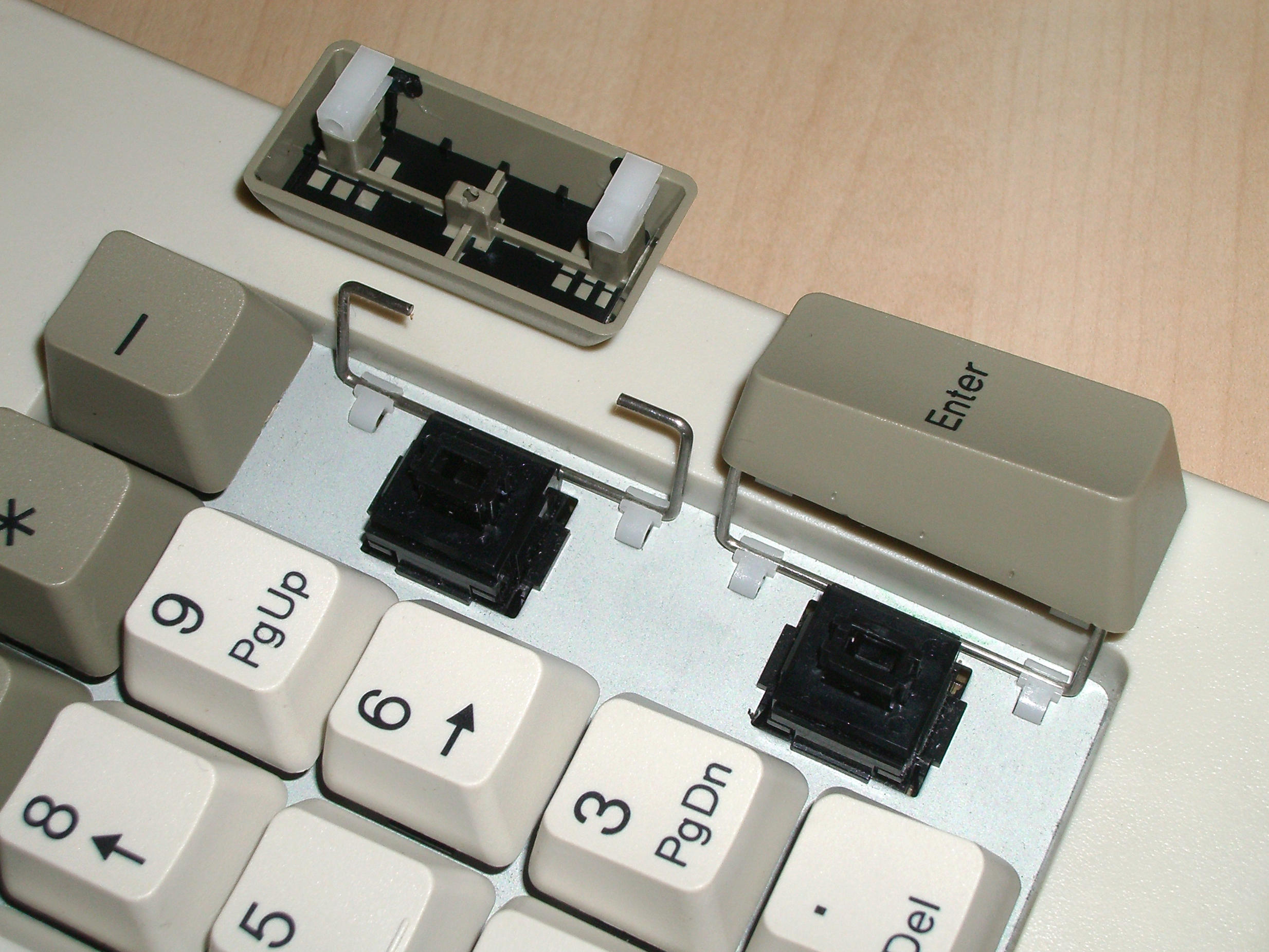 Keyboard stabilizer